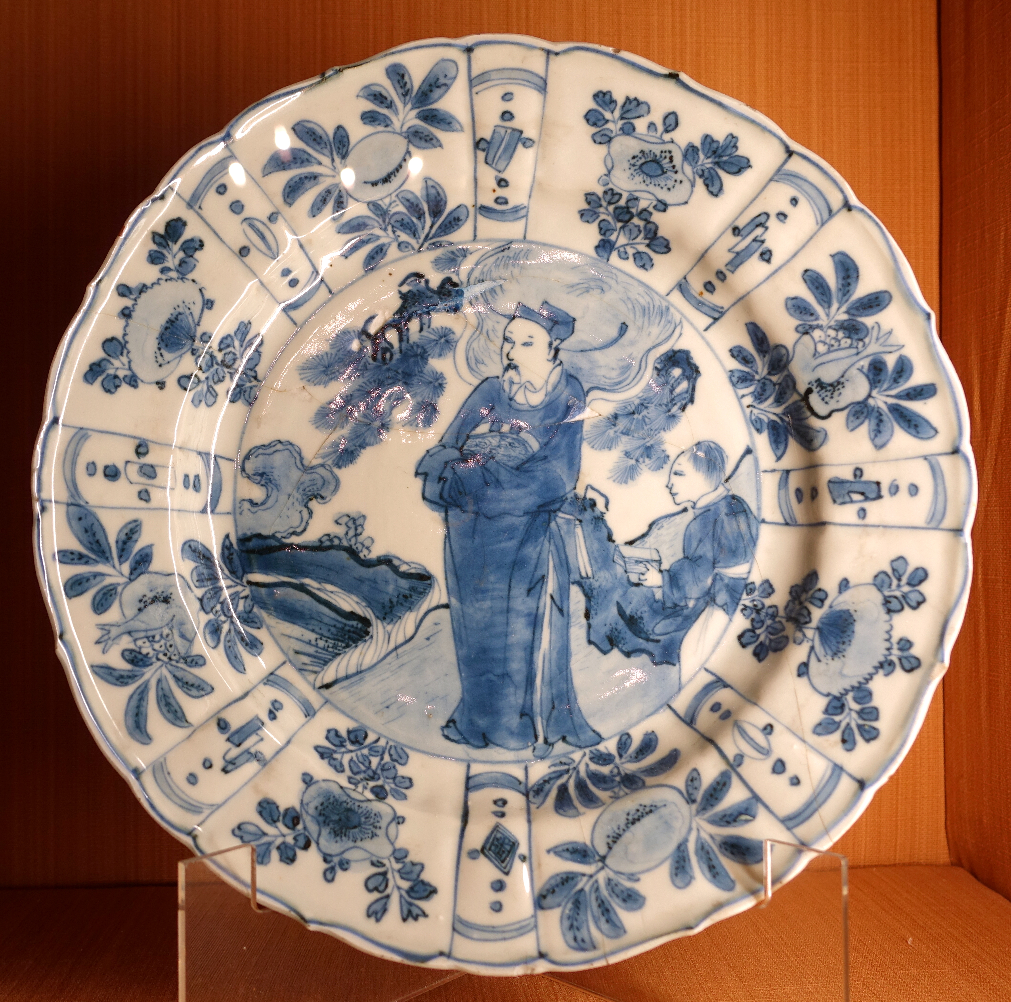 Exhibit in the Museo Nacional de Artes Decorativas, Madrid, Spain. This work is in the public domain because the artist died more than 100 years ago.